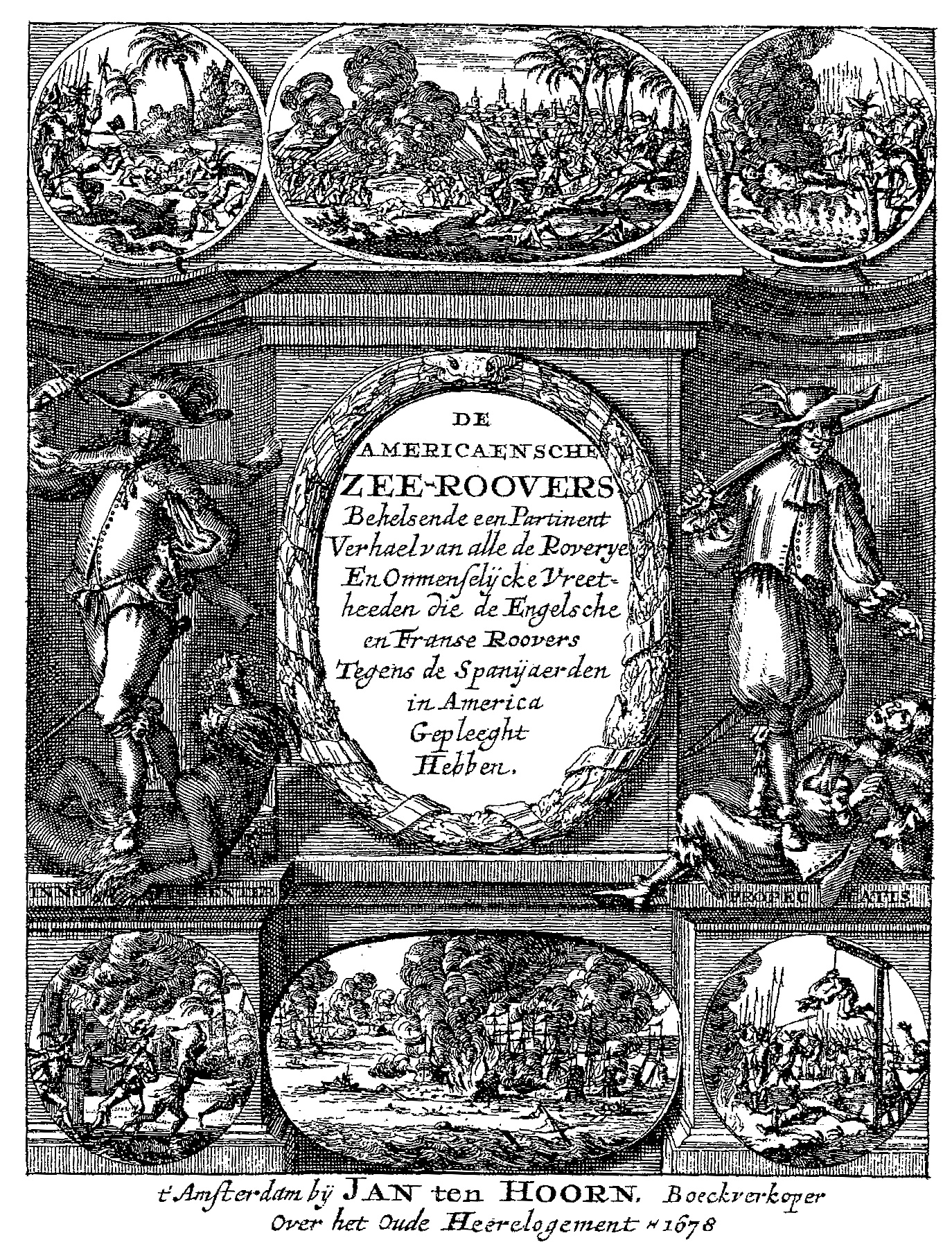 Image from book from 1678, see :en:Alexandre Exquemelin